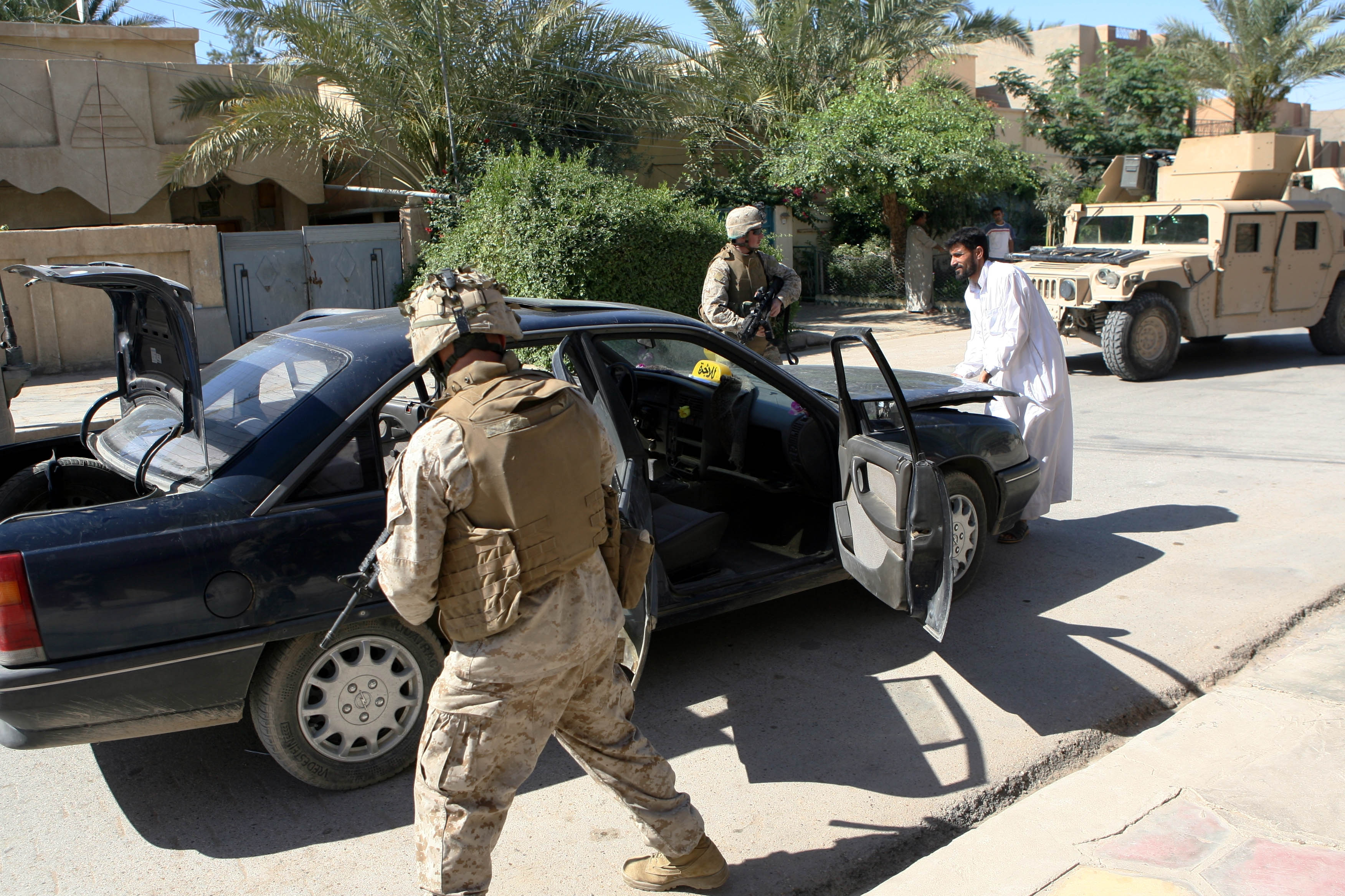 Marines with 2nd Platoon, Weapons Company, 3rd Battalion, 8th Marine Regiment conducted a snap vehicle checkpoint patrol in downtown western Ramadi to disrupt insurgent activity in the battlespace May 23. Weapons Company conducted a snap vehicle checkpoint patrol in downtown western Ramadi in order to disrupt insurgent activity in the battlespace. 3/8 is currently deployed with I Marine Expeditionary Force (Forward) in support of Operation Iraqi Freedom in Al Anbar Province to develop the Iraqi security forces, facilitate the development of official rule of law through democratic government reforms, and continue the development of a market-based economy centered on Iraqi reconstruction.